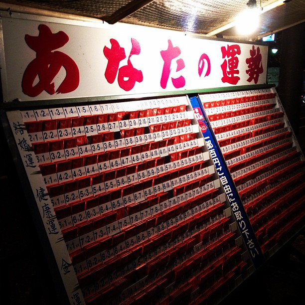 other